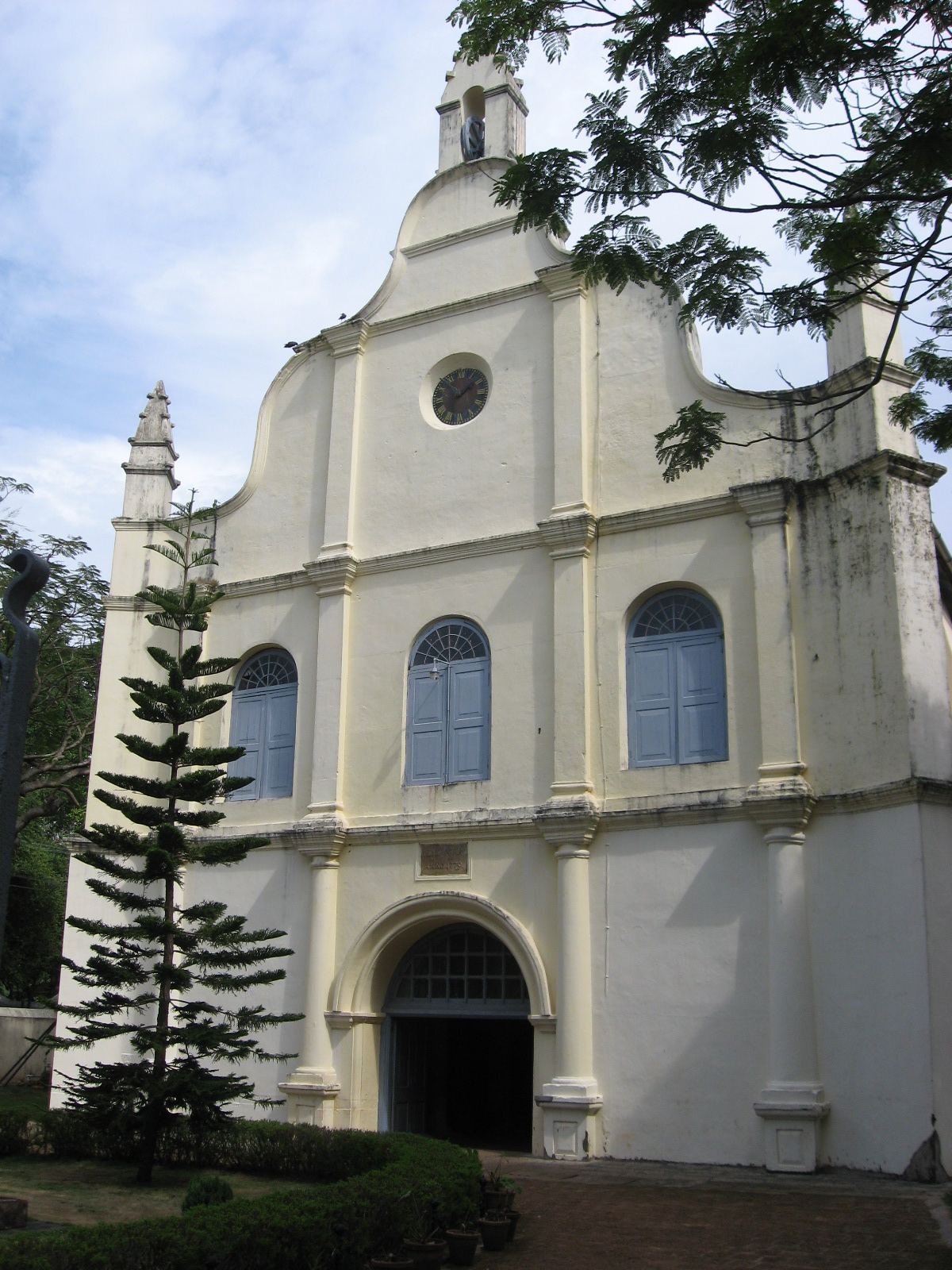 St.Francis Church in Kochi (Cochin), Kerala, South India